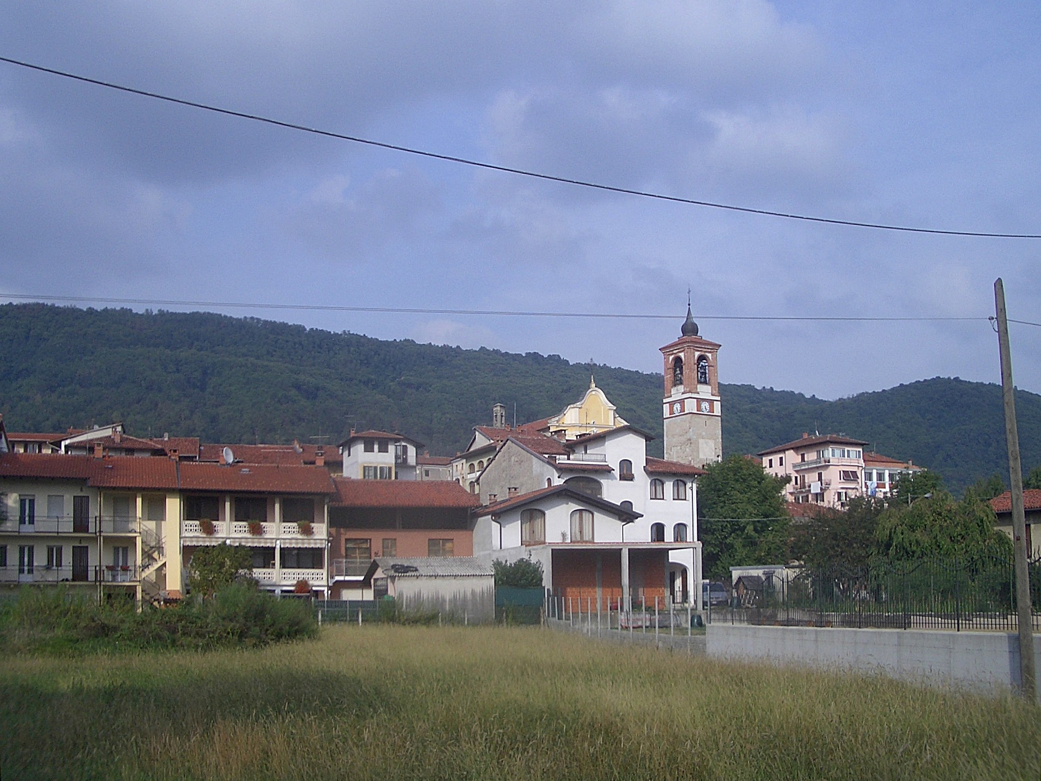 Palazzo Canavese, landscape